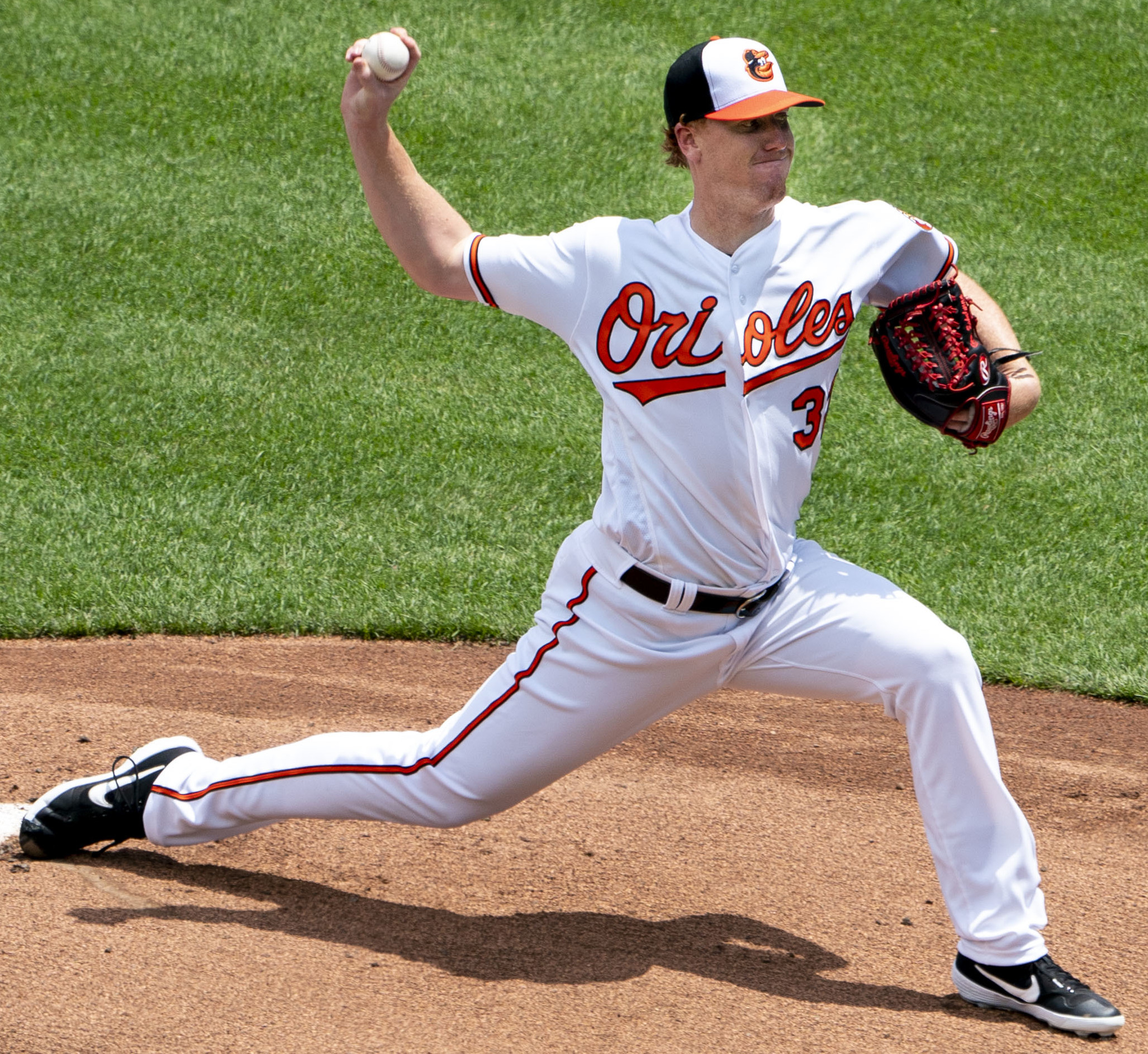 Tom Eshelman delivers a pitch for the Baltimore Orioles during a 2019 game at Camden Yards in Baltimore